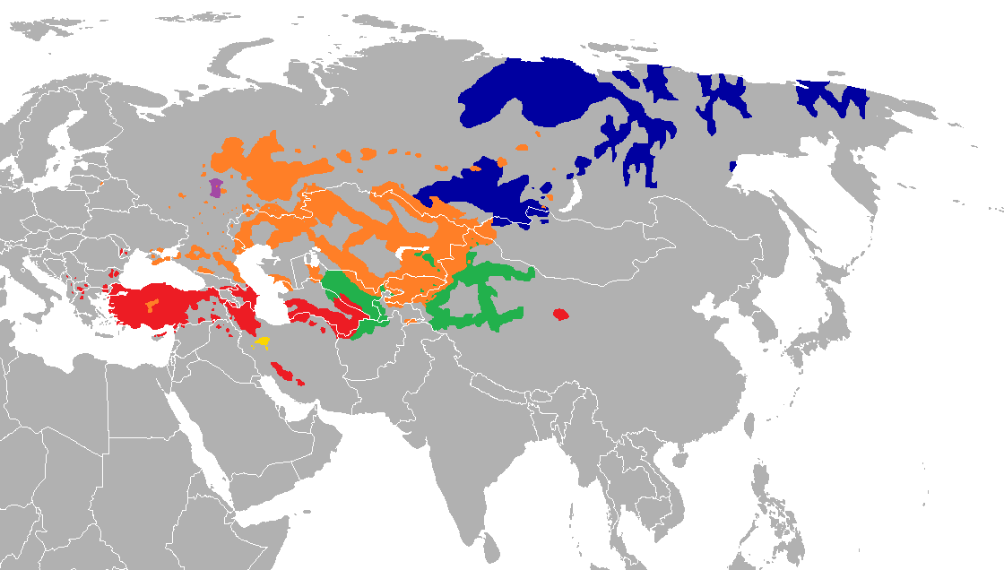 Turkic languages Southwestern (Oghuz) Southeastern (Uyghur) Khalaj (Arghu) Northwestern (Kipchak) Chuvash (Oghur) Northeastern (Siberian)